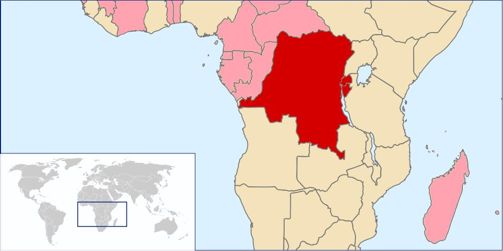 Red: Variations of the French language which are from Belgium and used in Africa. Namely in the Democratic Republic of Congo (ex-Zaïre), Burundi and Rwanda. Pink: Other French-speaking countries. Kiswahili: Nyekundu: Aina ya Kifaransa kutoka Ubelgiji kutumika katika Afrika. Yaani katika Jamhuri ya Kidemokrasi ya Kongo (ex-Zaïre), Burundi, na Rwanda. Rose: Nyingine Kifaransa-akizungumza nchi.